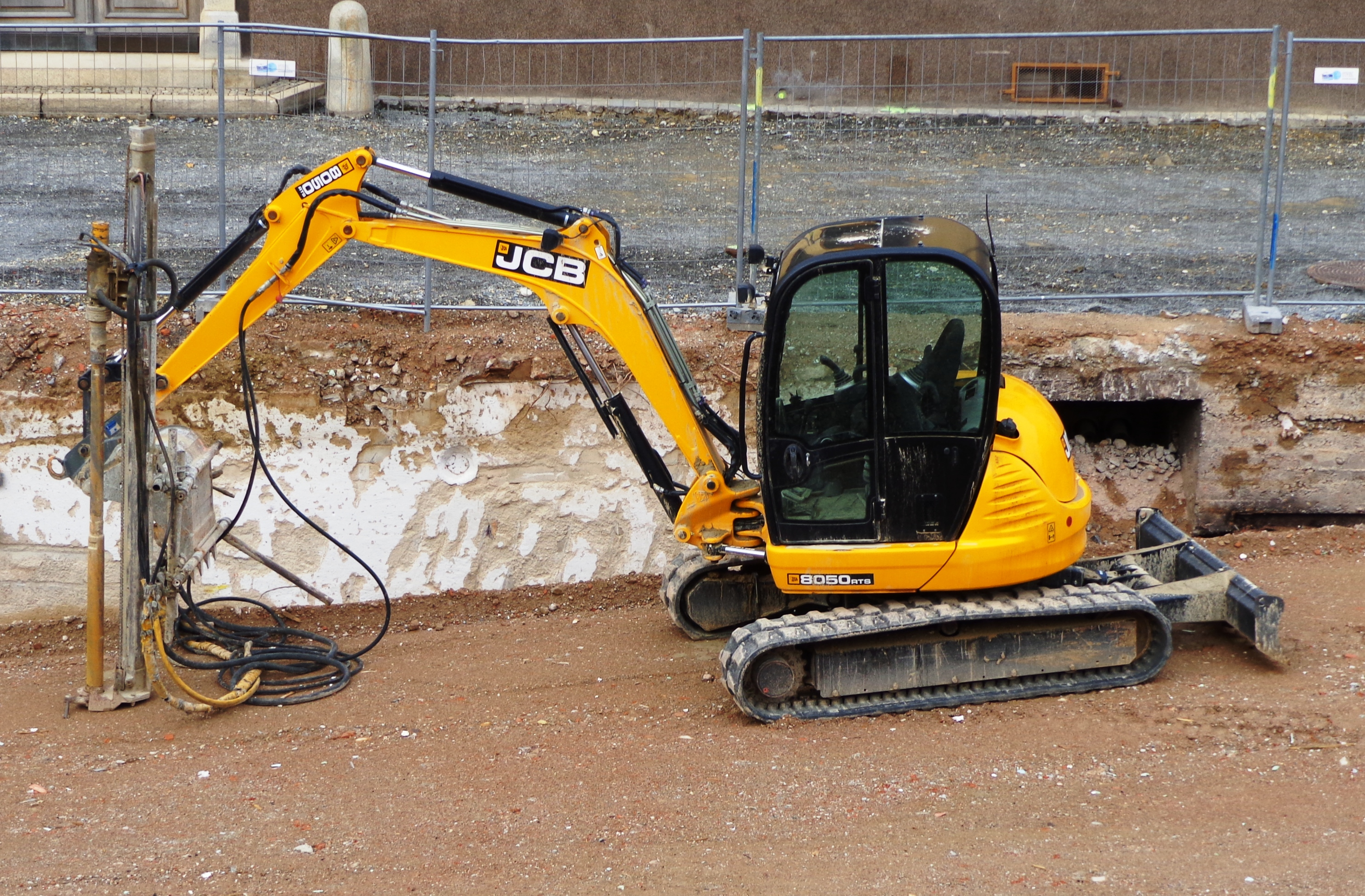 A JCB 8050RTS compact excavator.